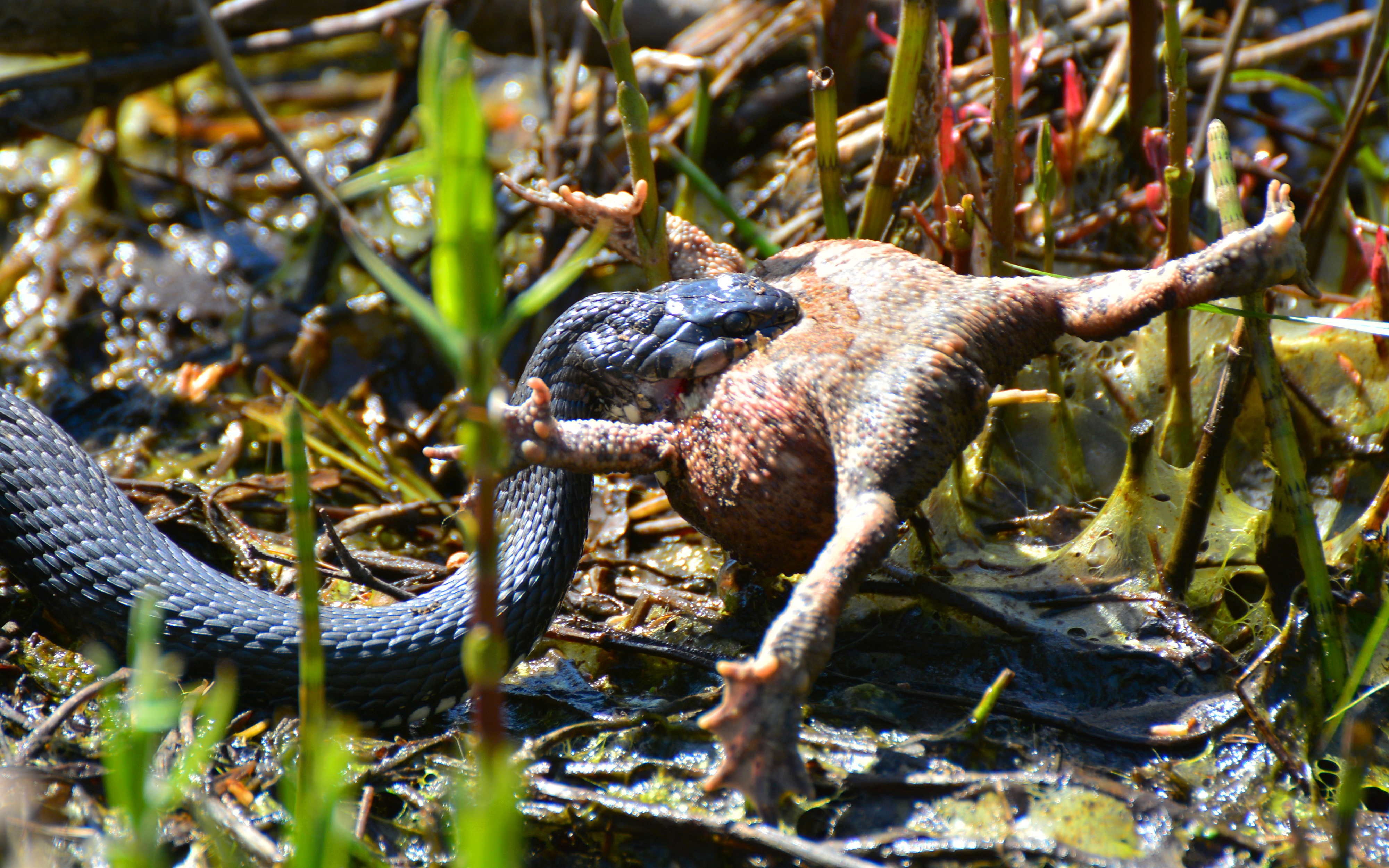 A grass snake Natrix natrix have cought a toad in Tyresta National Park.